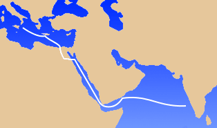 Derived by User:Bunchofgrapes from [1], which was derived by User:Pcb21 from work by User:Vardion, all GFDL